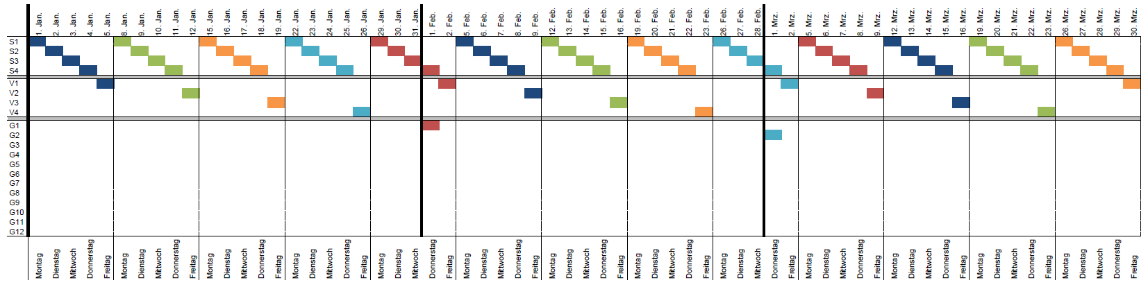 In different time lines there will be created a backup. Weeks are marked with colors.